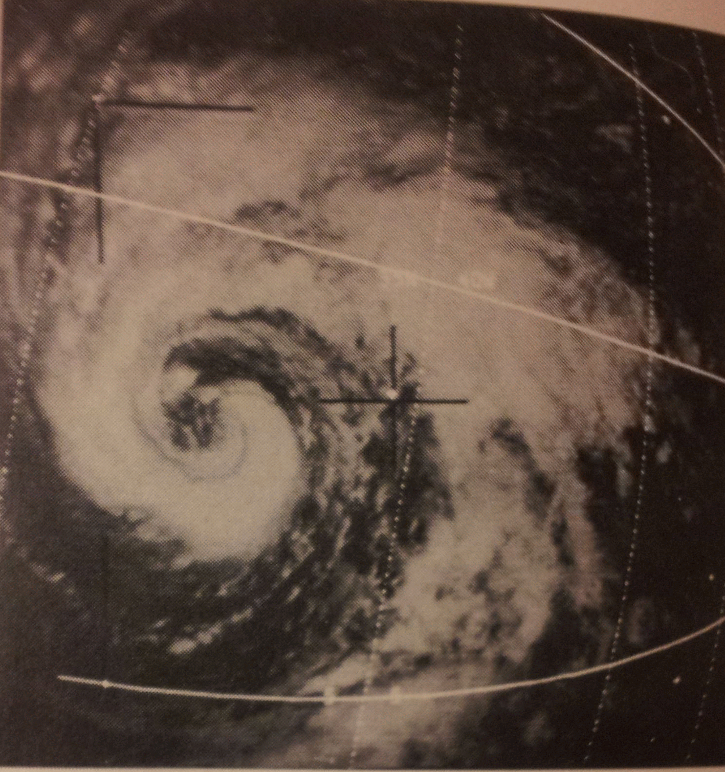 This satellite image of Hurricane Dorothy was taken by the ESSA 1 weather satellite on July 23, 1966